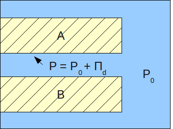 Diagram for illustration of disjoining pressure